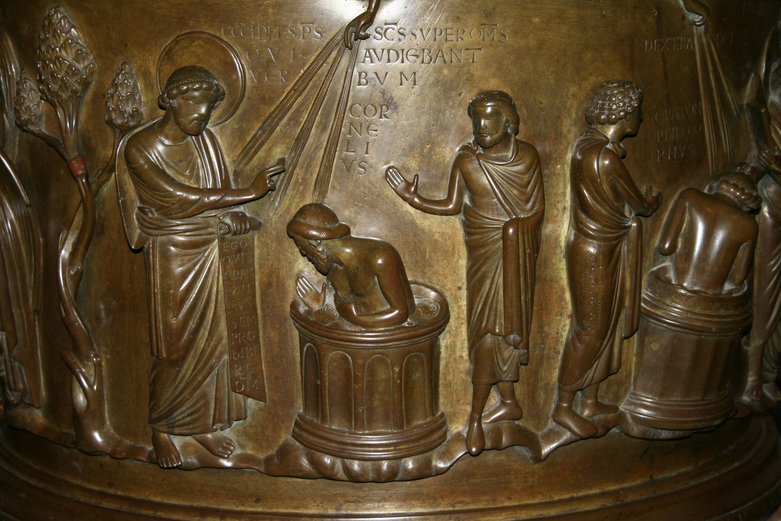 Liège (Belgium), Saint Bartholomew's Church - Baptismal font of Renier de Huy (begin of the XIIth century). - The baptism of the Corneille centurion.